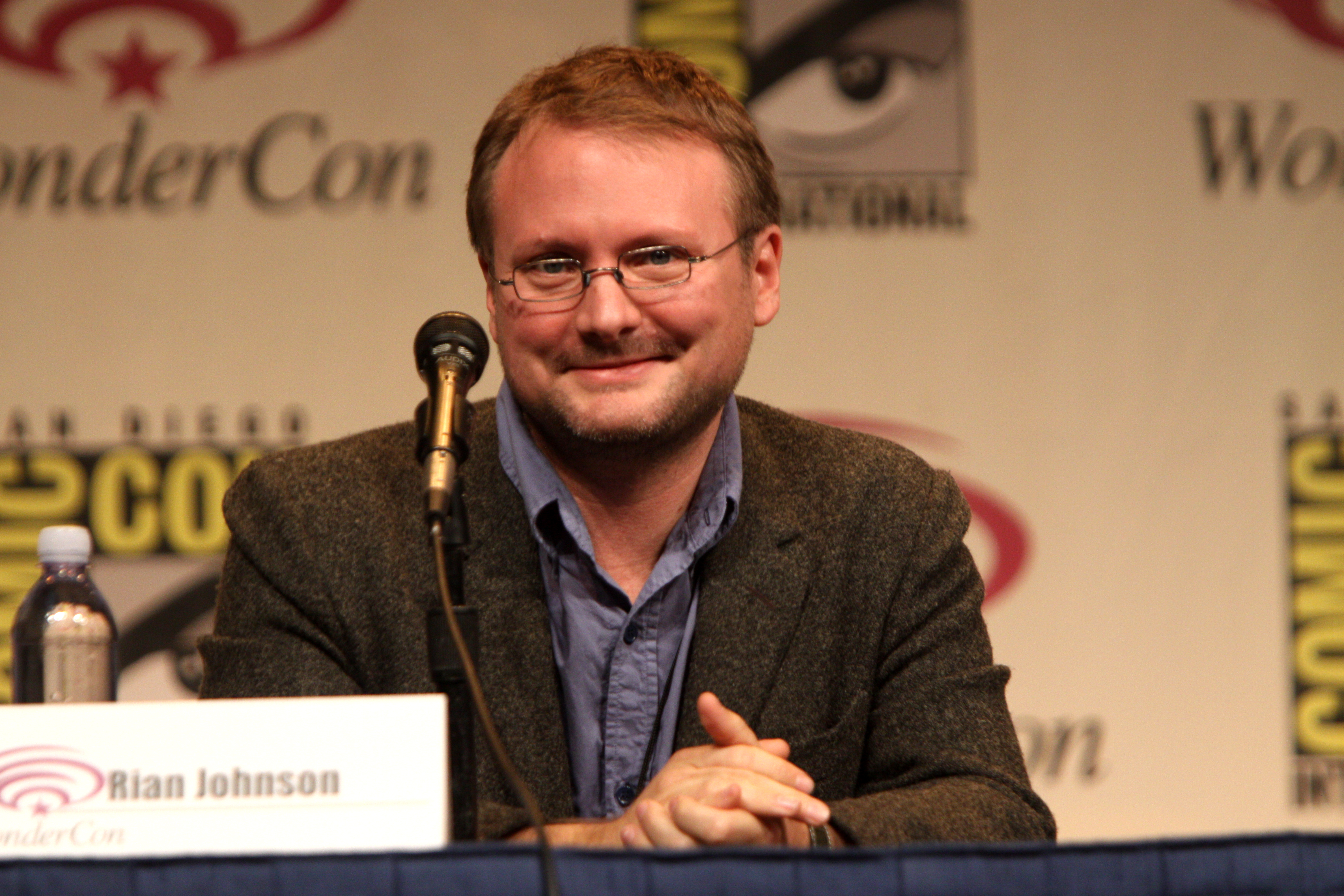 Rian Johnson speaking at the 2012 WonderCon in Anaheim, California.